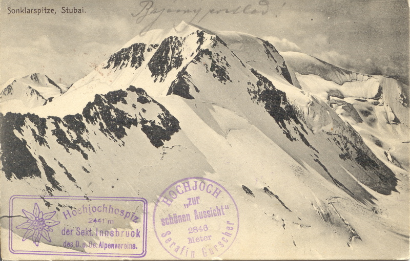 Sonklarspitze, postcard, before 1908